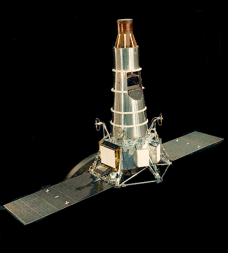 Ranger 7 space probe.